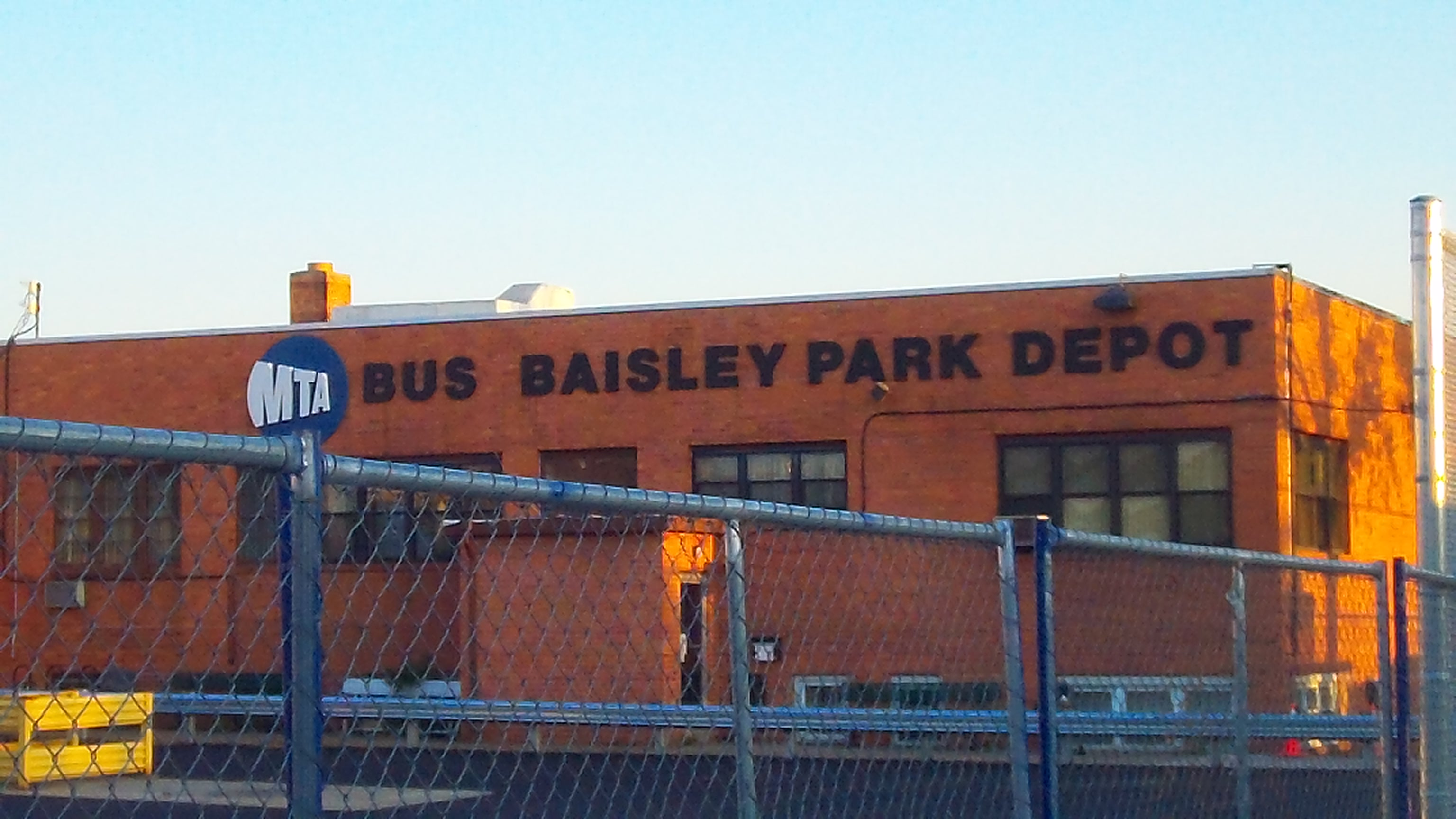 Baisley Park Bus Depot at sunset Other information no